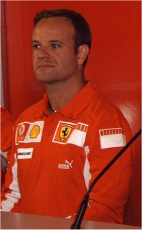 Rubens Barrichello Scuderia Ferrari (2005) at a press conference